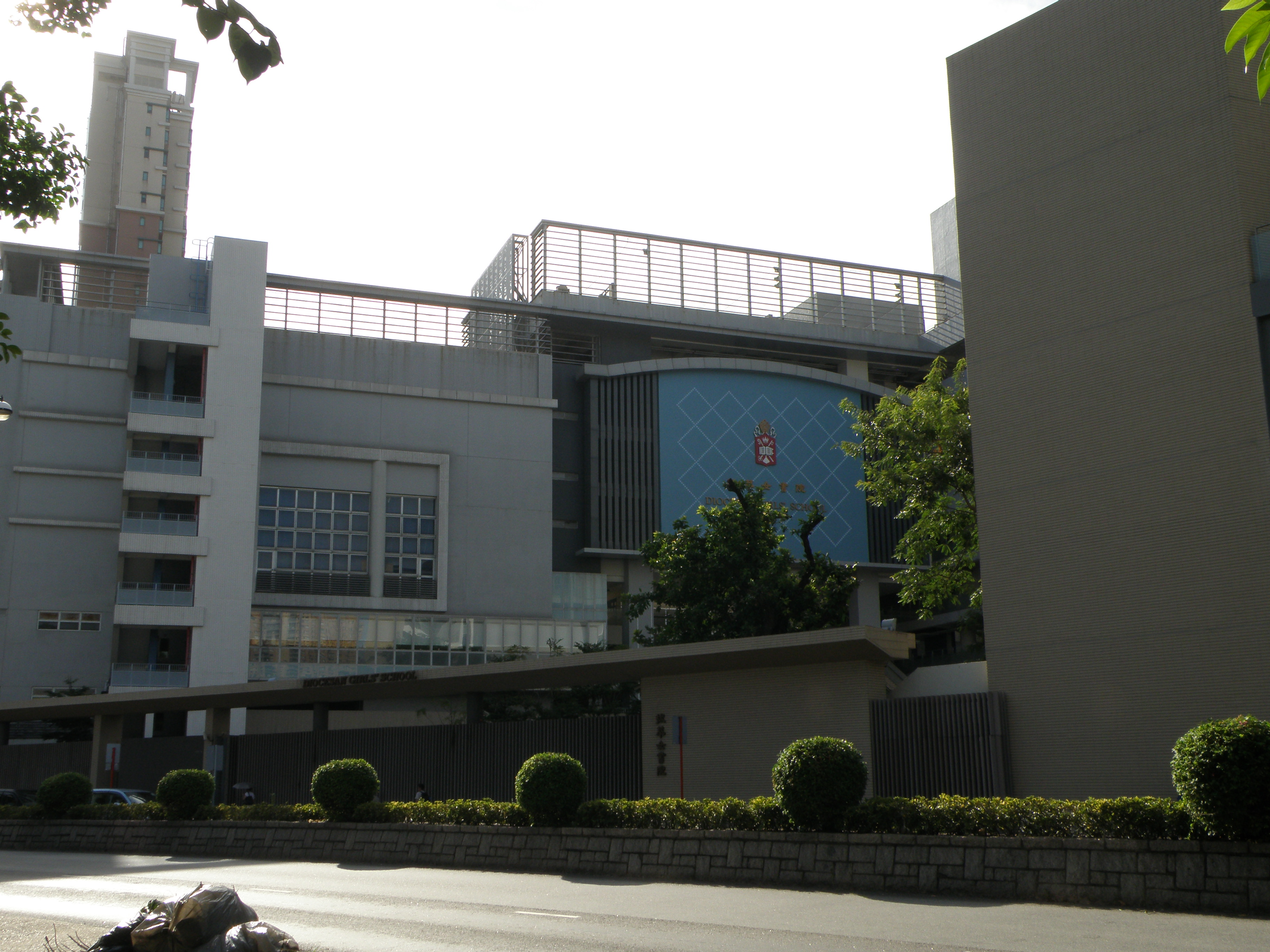 Diocesan Girls' School after rebuild, Jordan, Hong Kong.